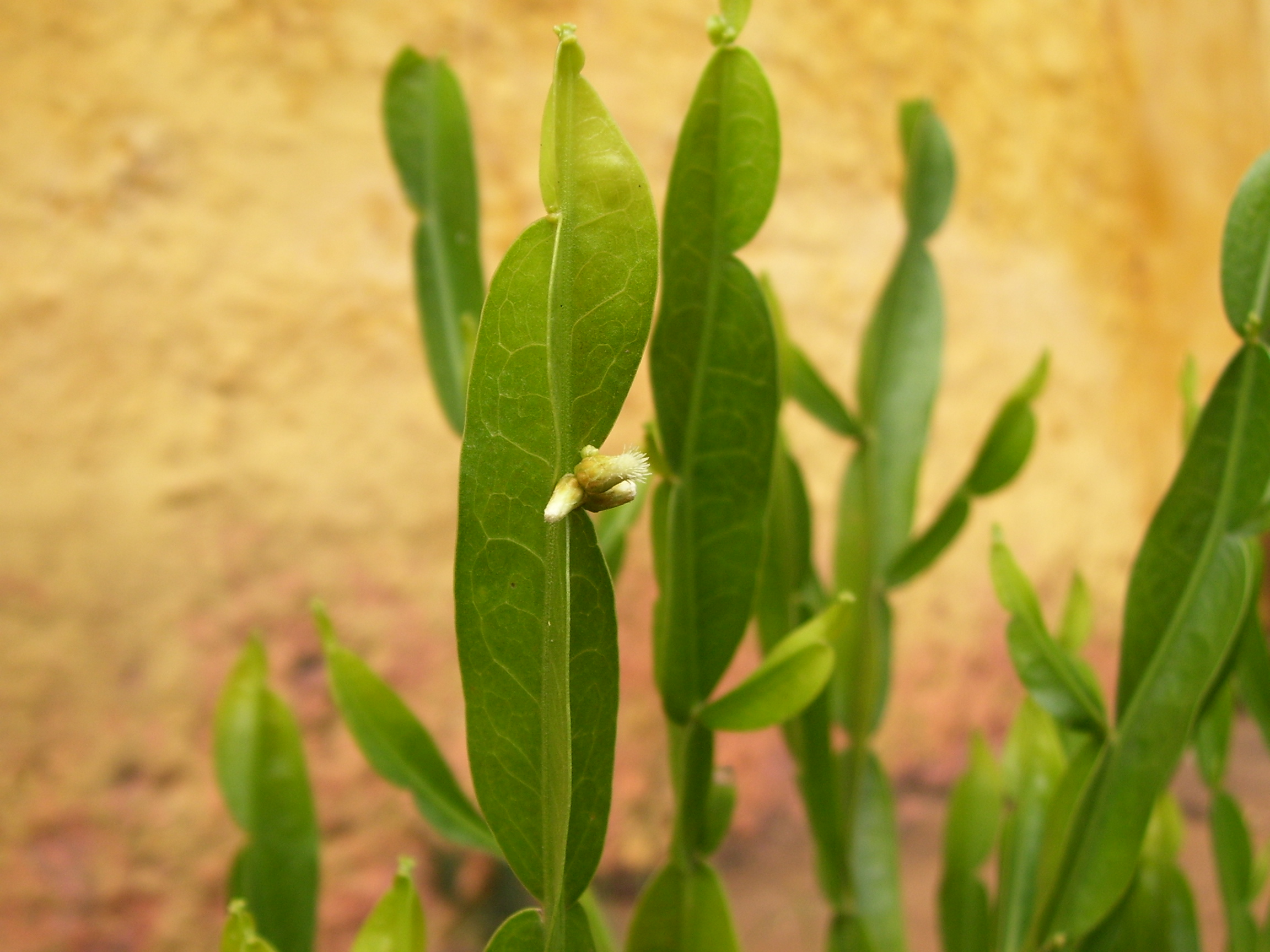 Baccharis trimera (Less) DC.